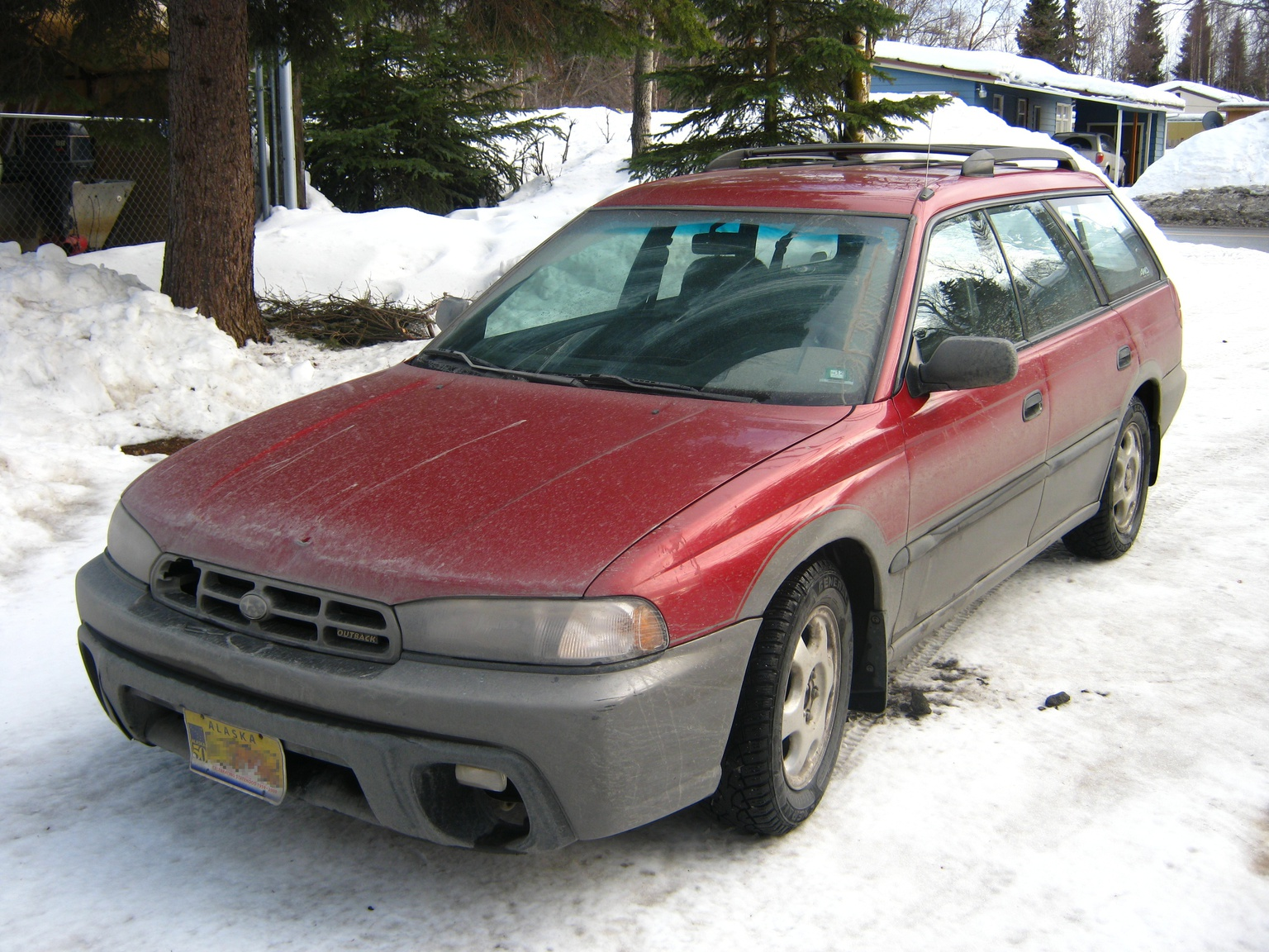 The outside of my new car.